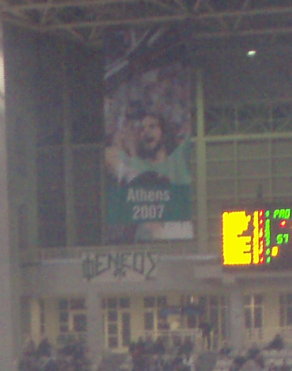 Alvertis giant portrait on OAKA roof for the 4th european champion